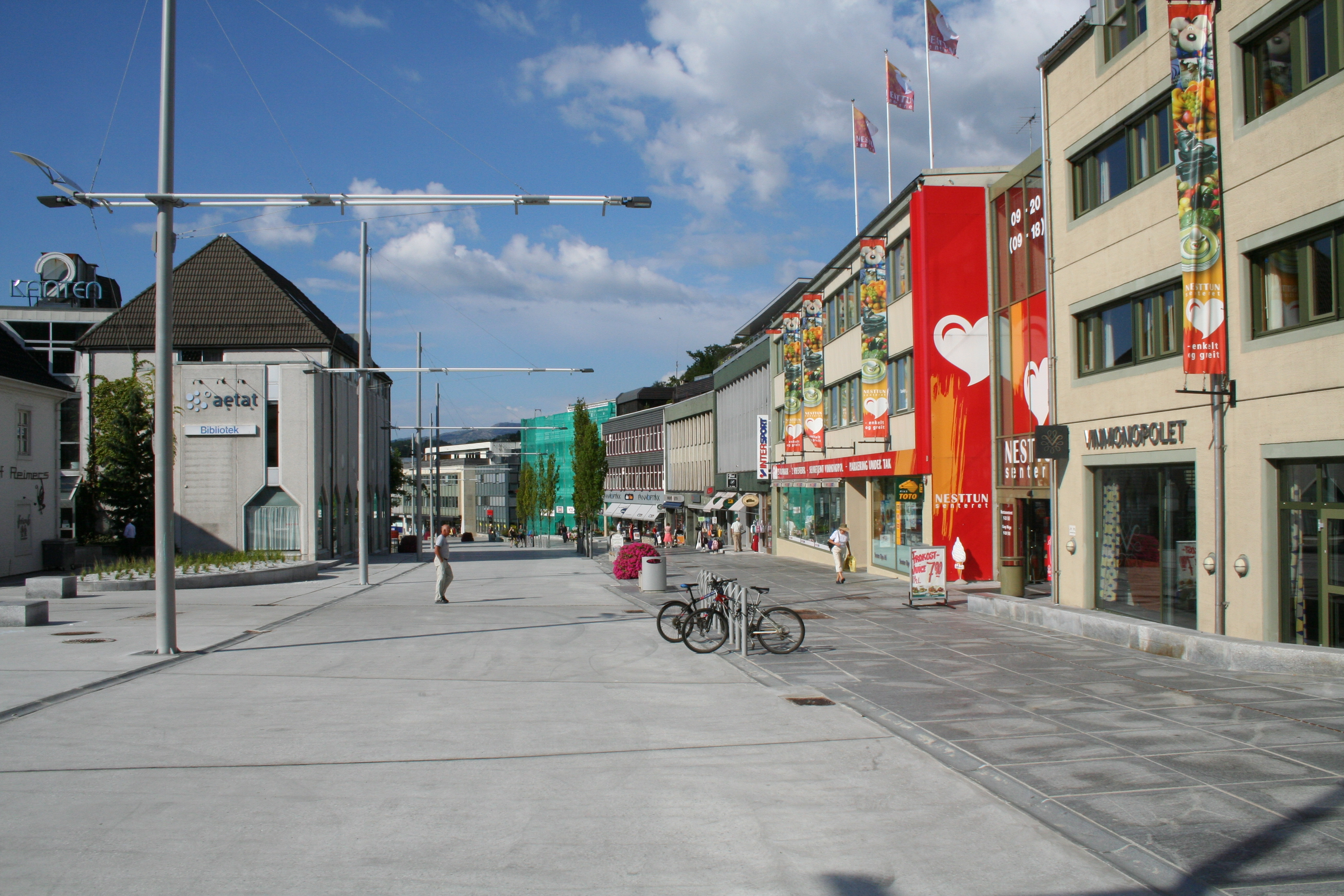 A picture of the Nesttun shopping district in Bergen, Norway